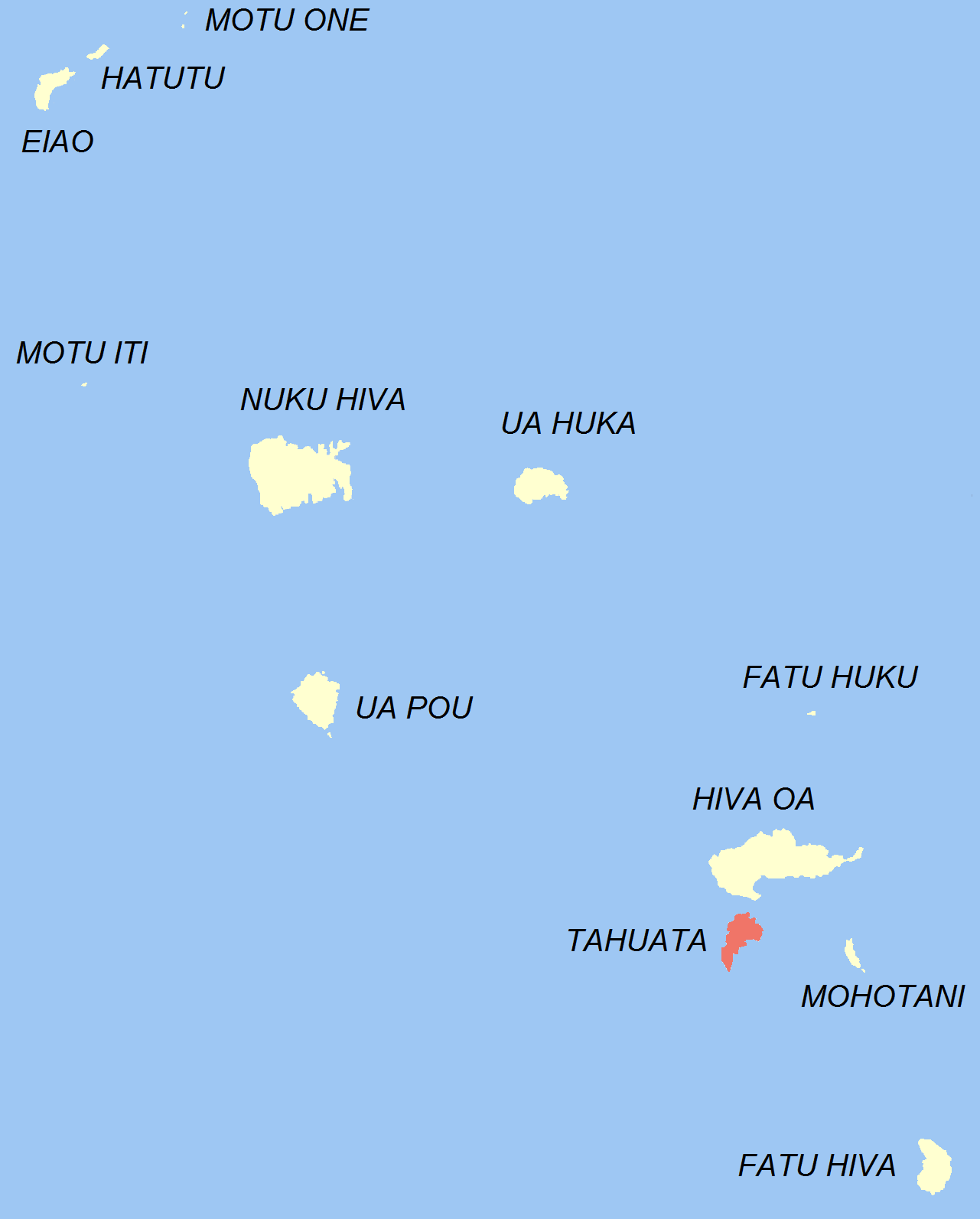 Map of the commune of Tahuata, made by myself.